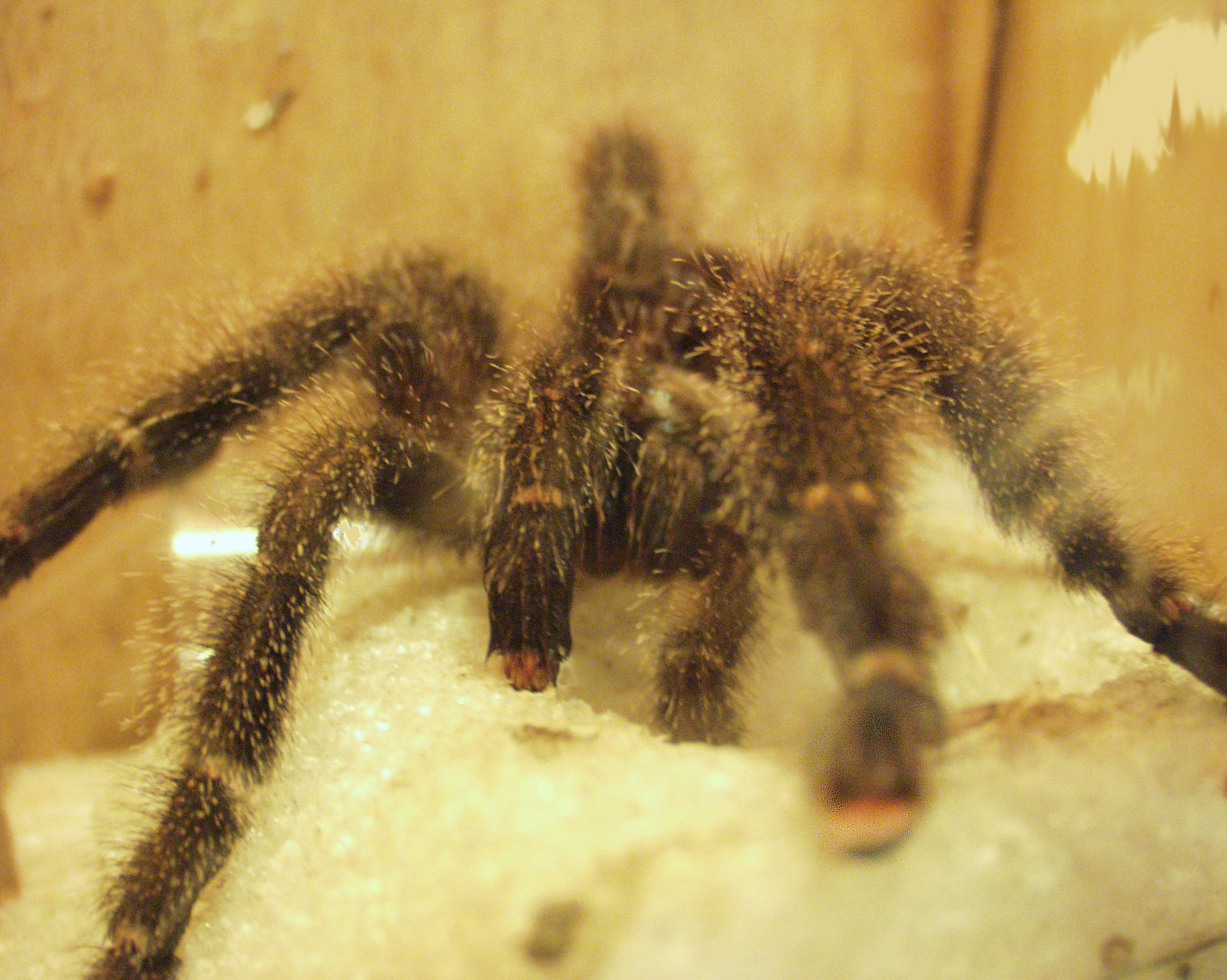 Member of the genus Avicularia, species variegata, formerly bicegoi. Body length approximately 6.5 cm, leg span over 10 cm.